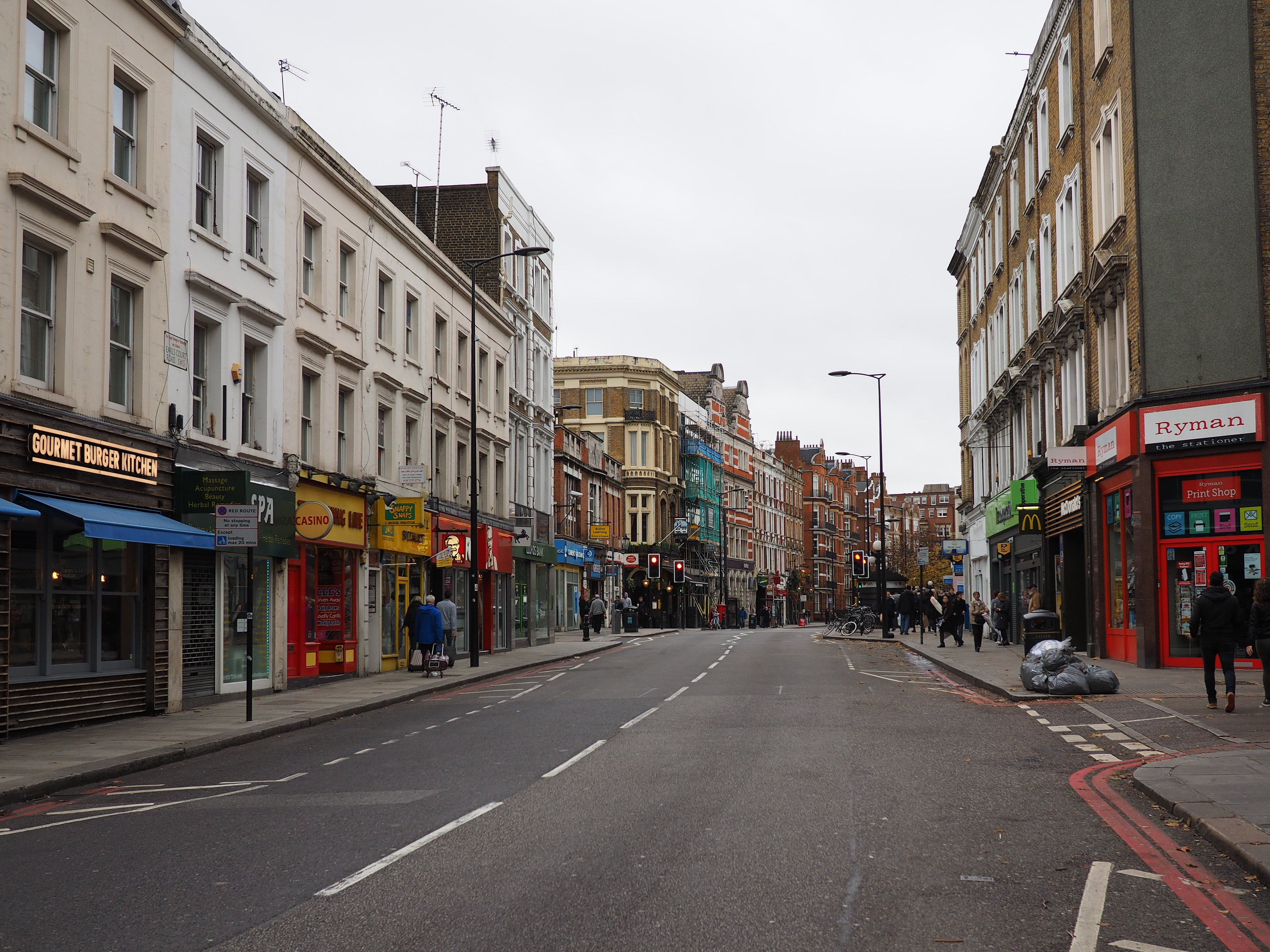 Southbound view along Earls Court Road from near the intersection with Kenway Road